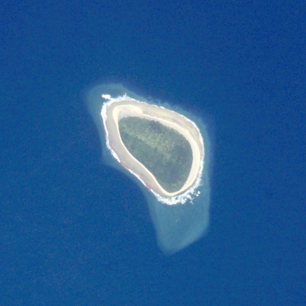 NASA astronaut image of Takutea Island (Cook Islands) in the Pacific Ocean